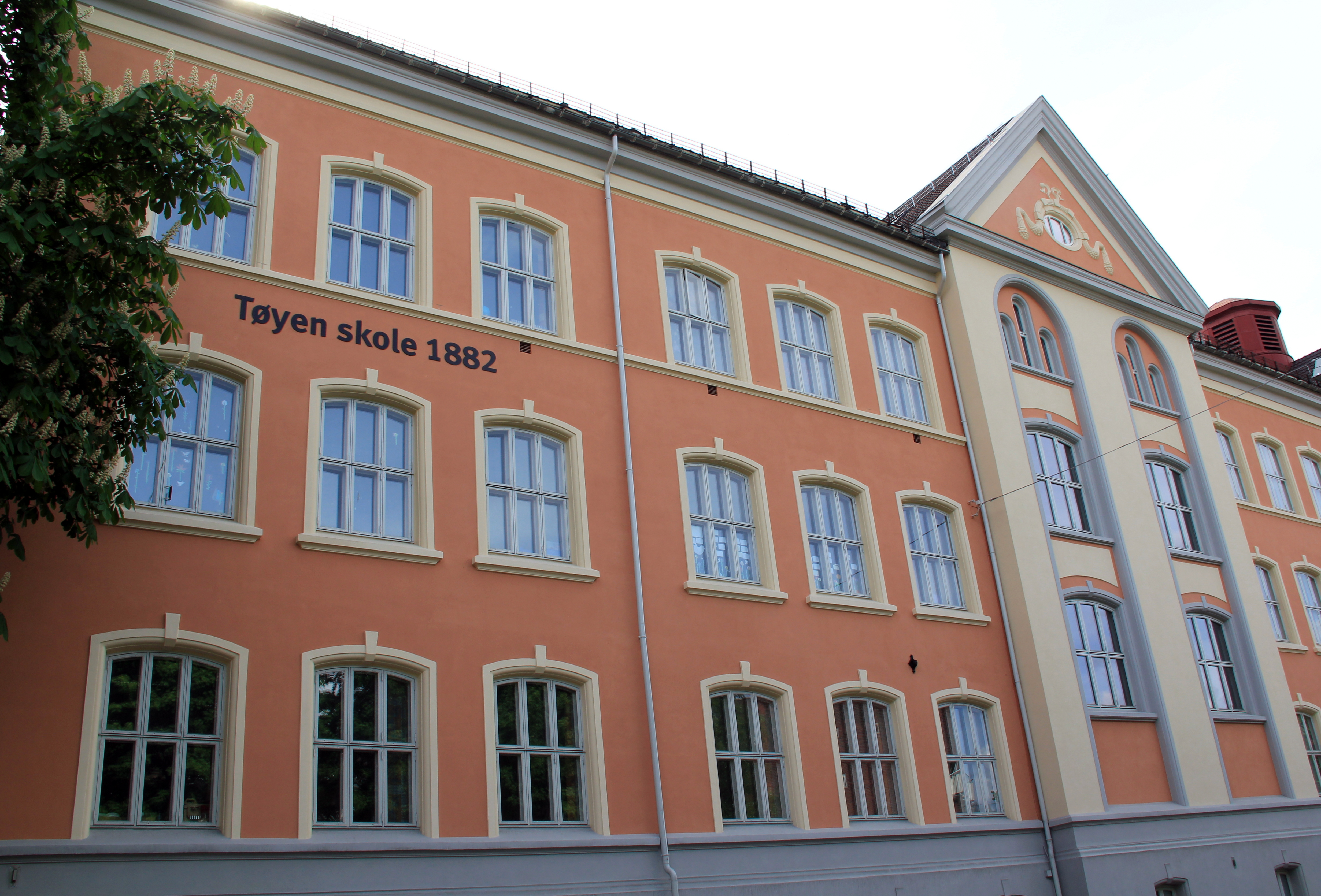 Tøyen elementary school